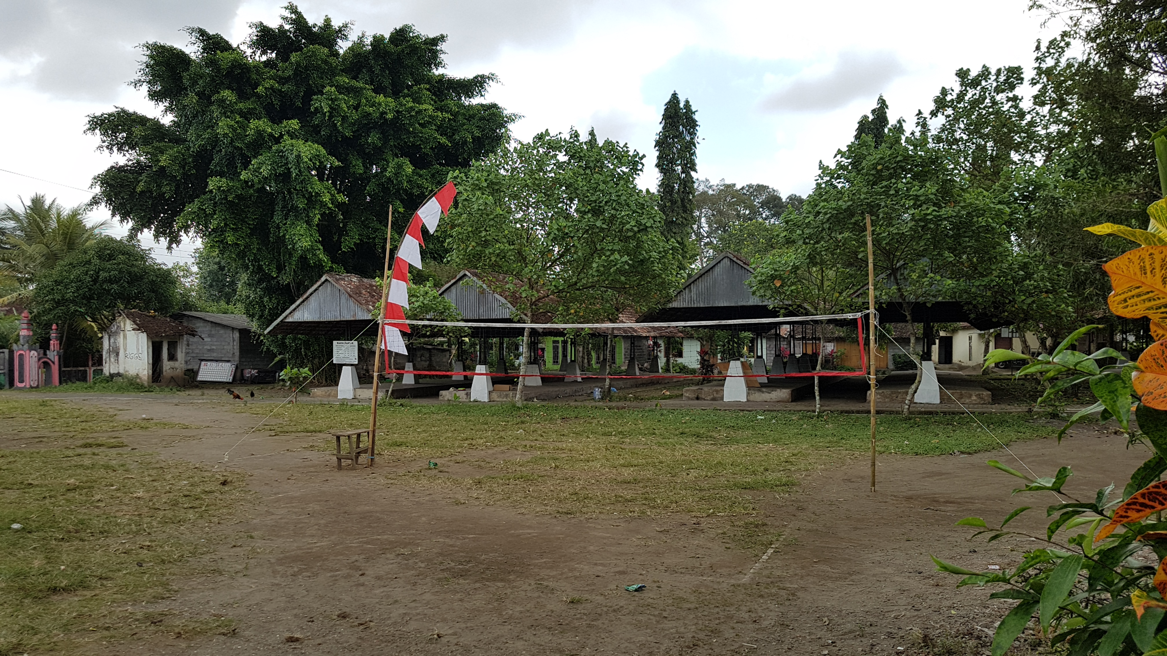 The village of Srowolan in Pakem, Special Region of Yogyakarta, Indonesia.